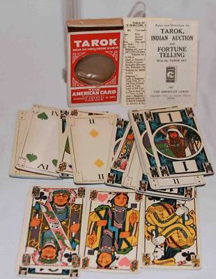 Tarok/tarot cards with American themes by August Petrtyl (1867-1937)